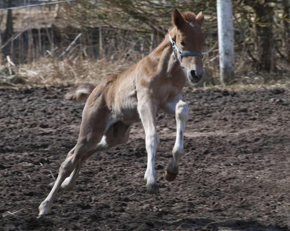 First steps outside for this guy, less than a week old.